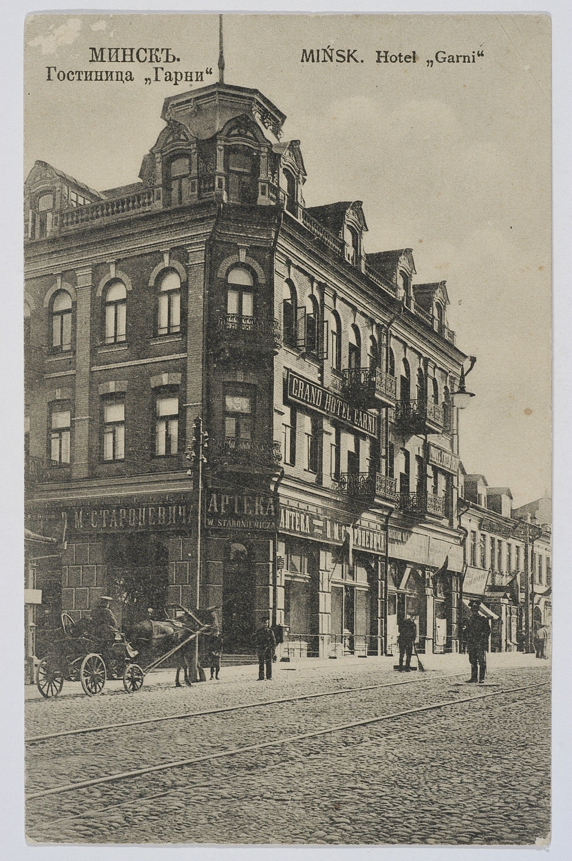 Hotel "Garni" in Miensk